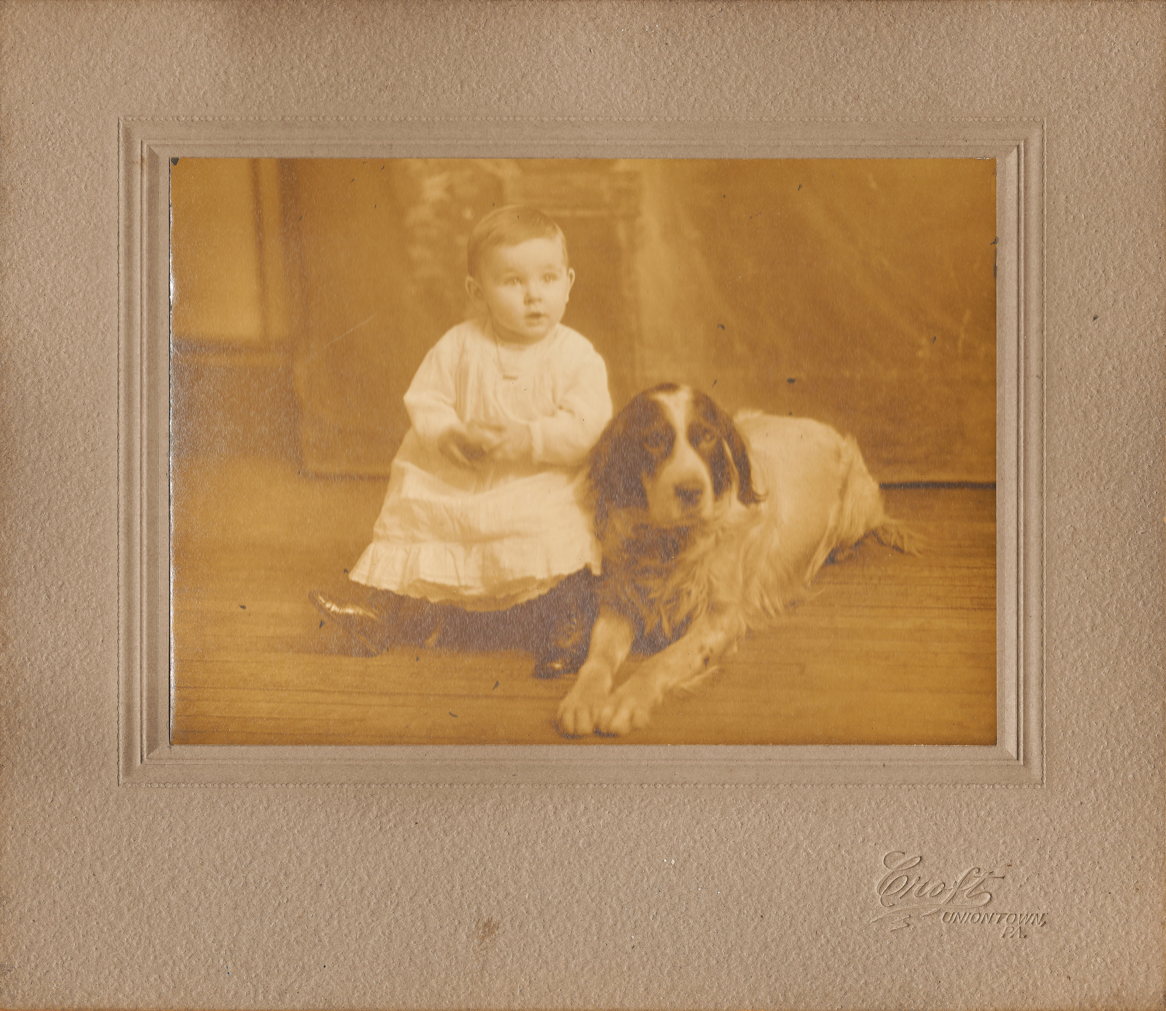 baby george and setter